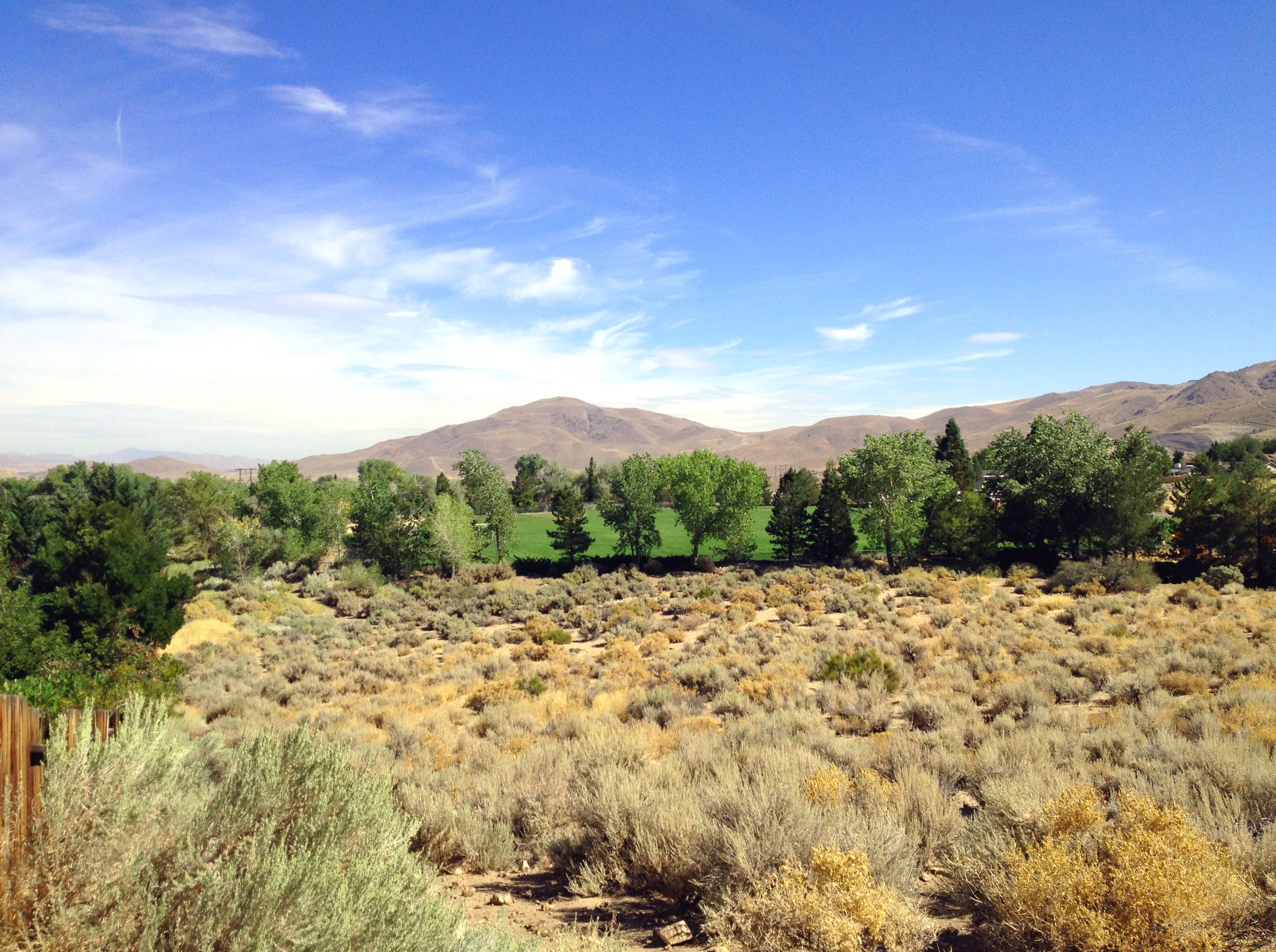 Truckee Meadows at the base of the Virginia Highlands looking east toward Rattlesnake Mountain and Huffaker. Downtown Reno is 8 miles to the left.